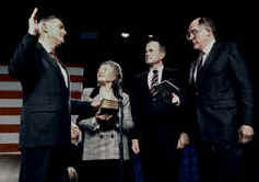 Energy Secretary James D. Watkins sworn into office, March 9, 1989.